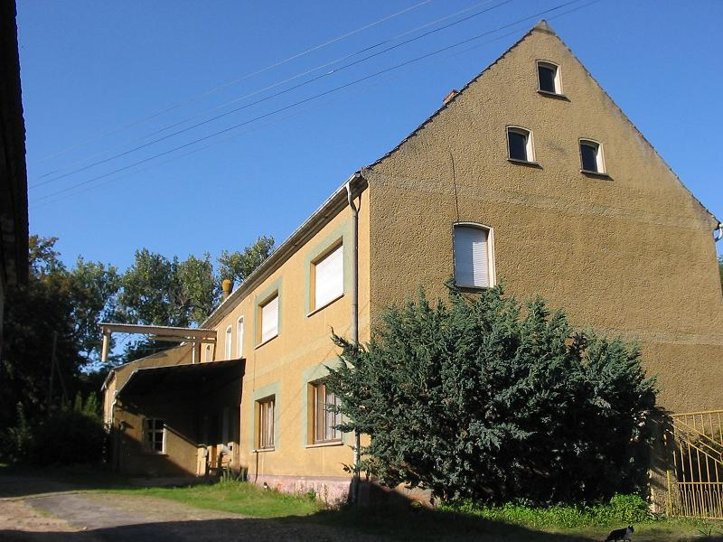 Shut downed "Old Mill" (water wheel) in Gömnigk. The village Gömnigk is a part of the town Brück in the district Potsdam Mittelmark, state Brandenburg, Germany, at the border to the natural preserve Naturpark Hoher Fläming.